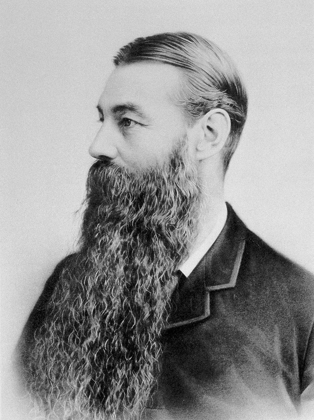 C. Lloyd Morgan. Photogravure by Synnberg Photo-gravure Co., 1898. Iconographic Collections Keywords: Conwy Lloyd Morgan; Synnberg Photo-gravure Co..